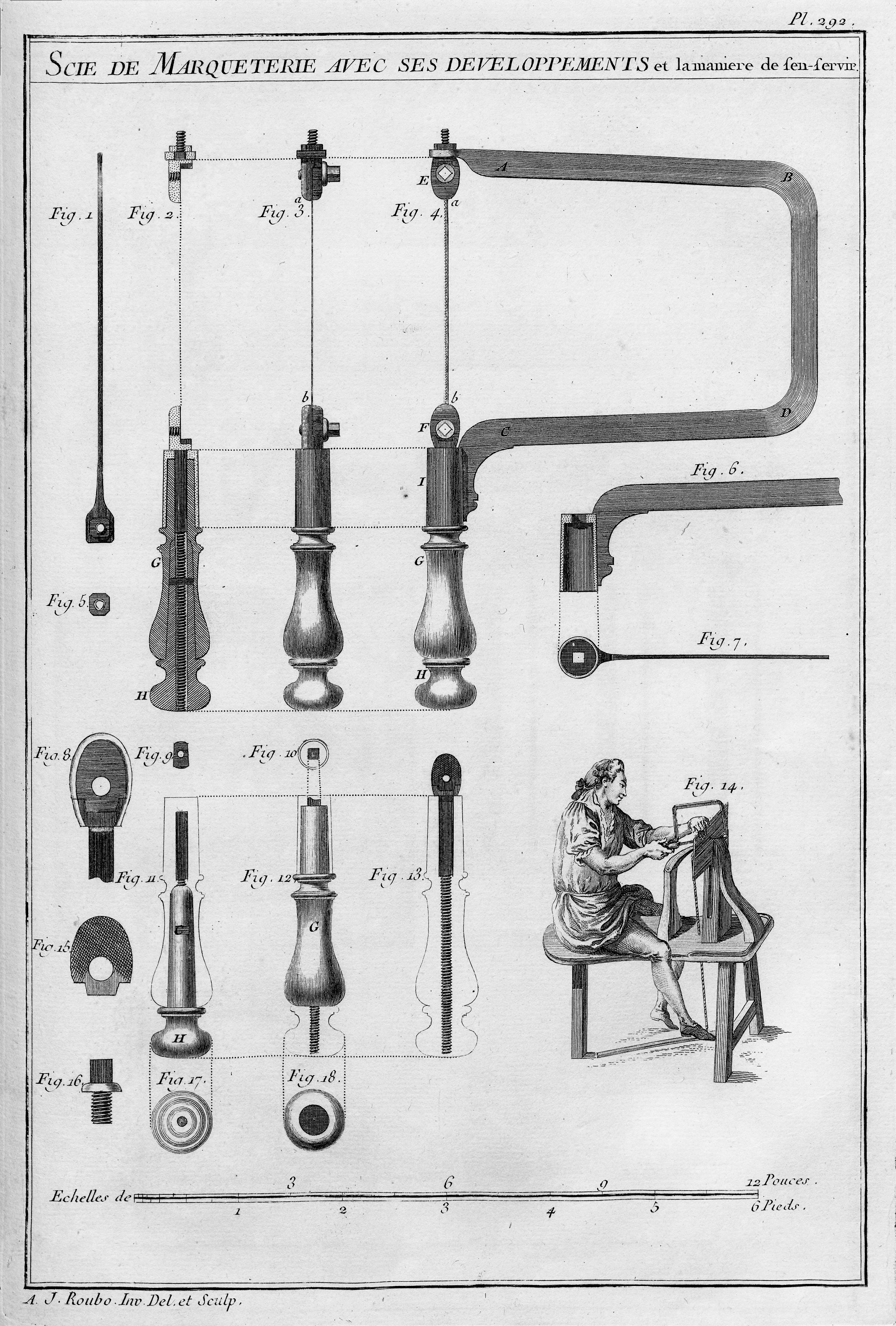 Engraving by André-Jacob Roubo from encyclopaedia L'Art du Menuisier, Troisième partie. Troisième section (part 3 - section 3, plate 292) showing construction of fretsaw and it's usage.